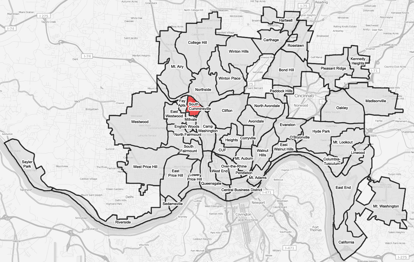 A map of the neighborhood of South Cumminsville within Cincinnati, Ohio. Neighborhood lines are based on information from This street map is derived from a free map.